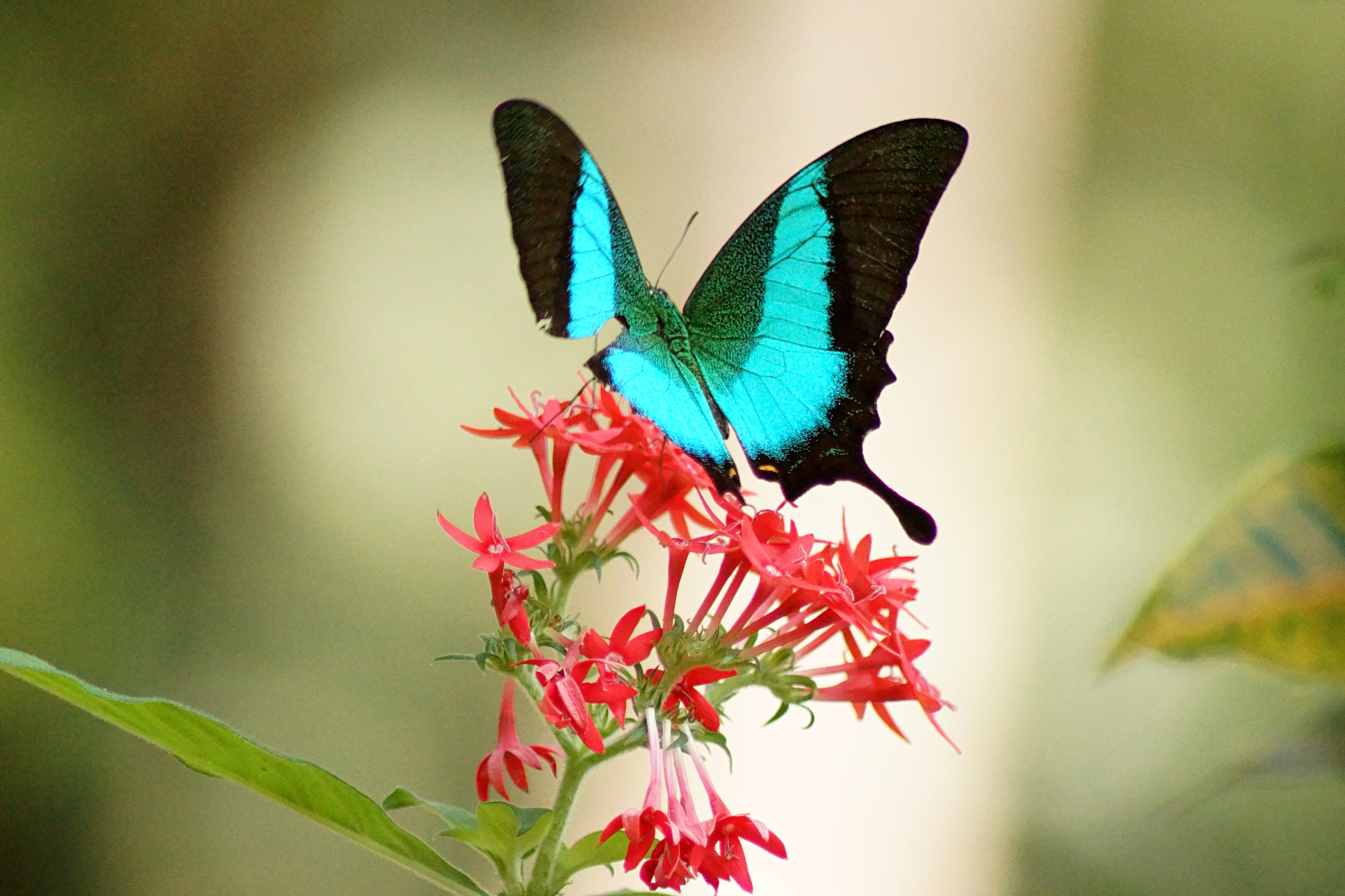 Kerala,India